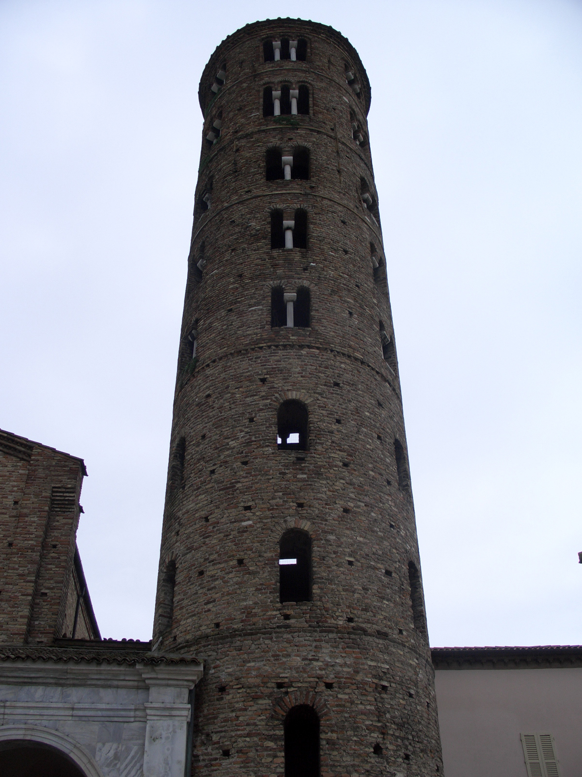 Church tower of the Basilica of Sant'Apollinare Nuovo in Ravenna, Italy.